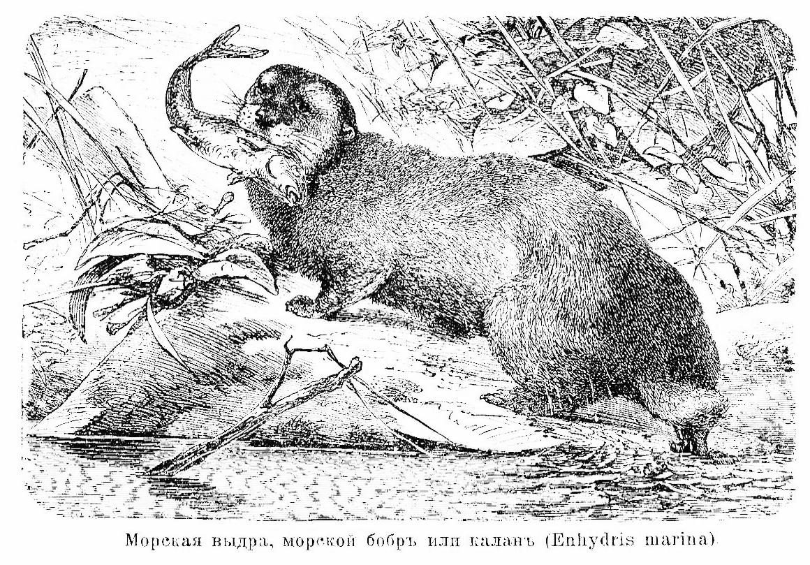 Illustration from Brockhaus and Efron Encyclopedic Dictionary (1890—1907)